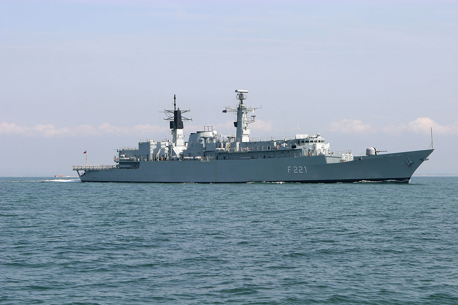 "Regele Ferdinand" frigate, the flagship of the Romanian Navy.